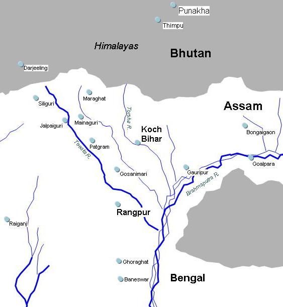 Sketch map of Koch Bihar and surroundings to illustrate article on the history of the princely state